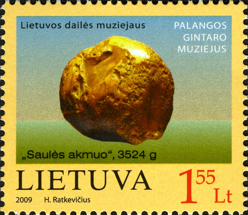 Stamps of Lithuania, 2009